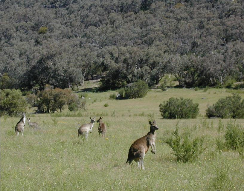 Kangaroos eating pasture